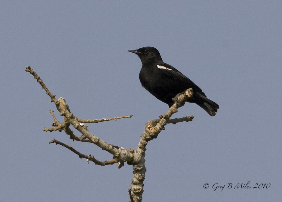 Sooty Chat